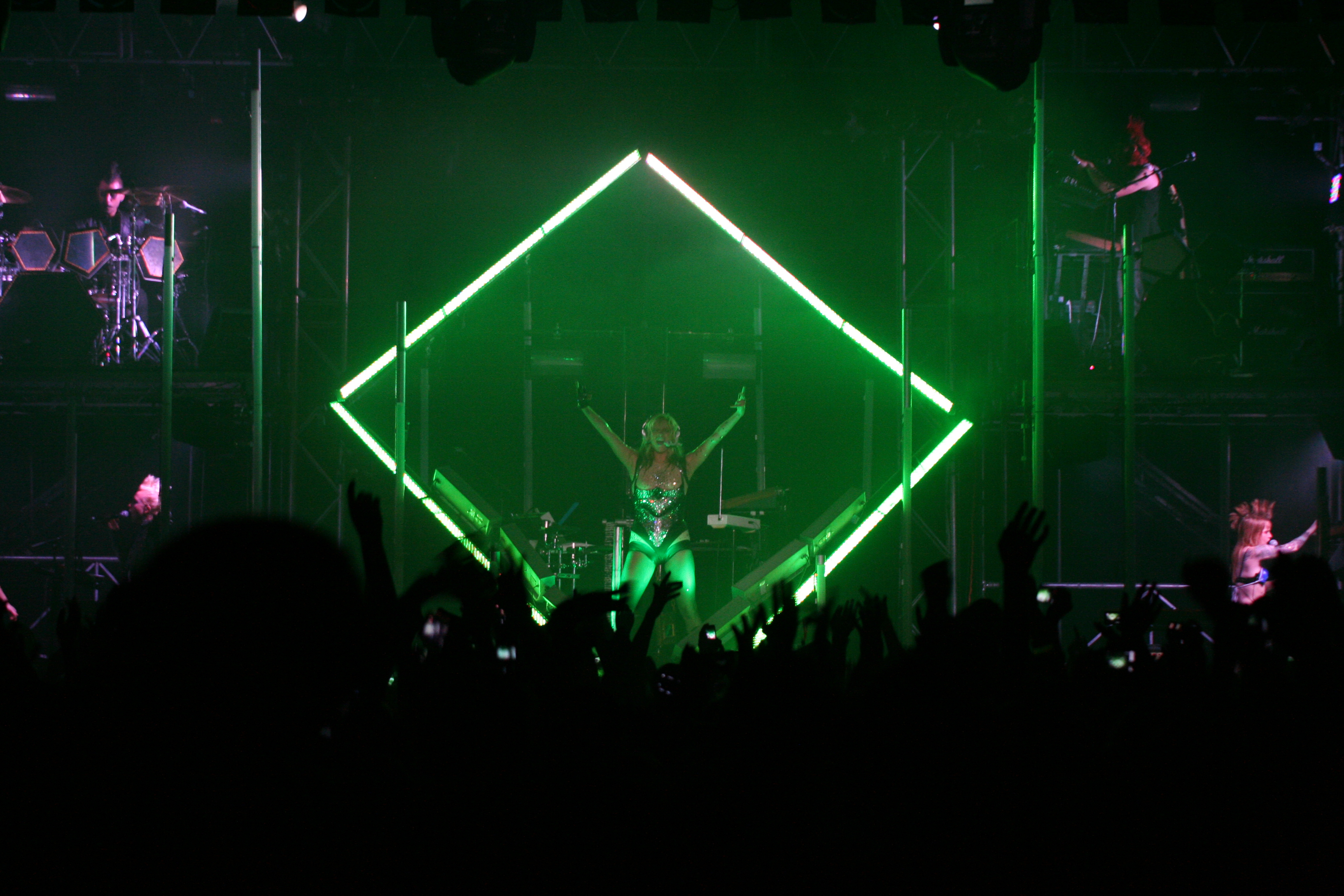 Kesha Hordern Pavilion Australia